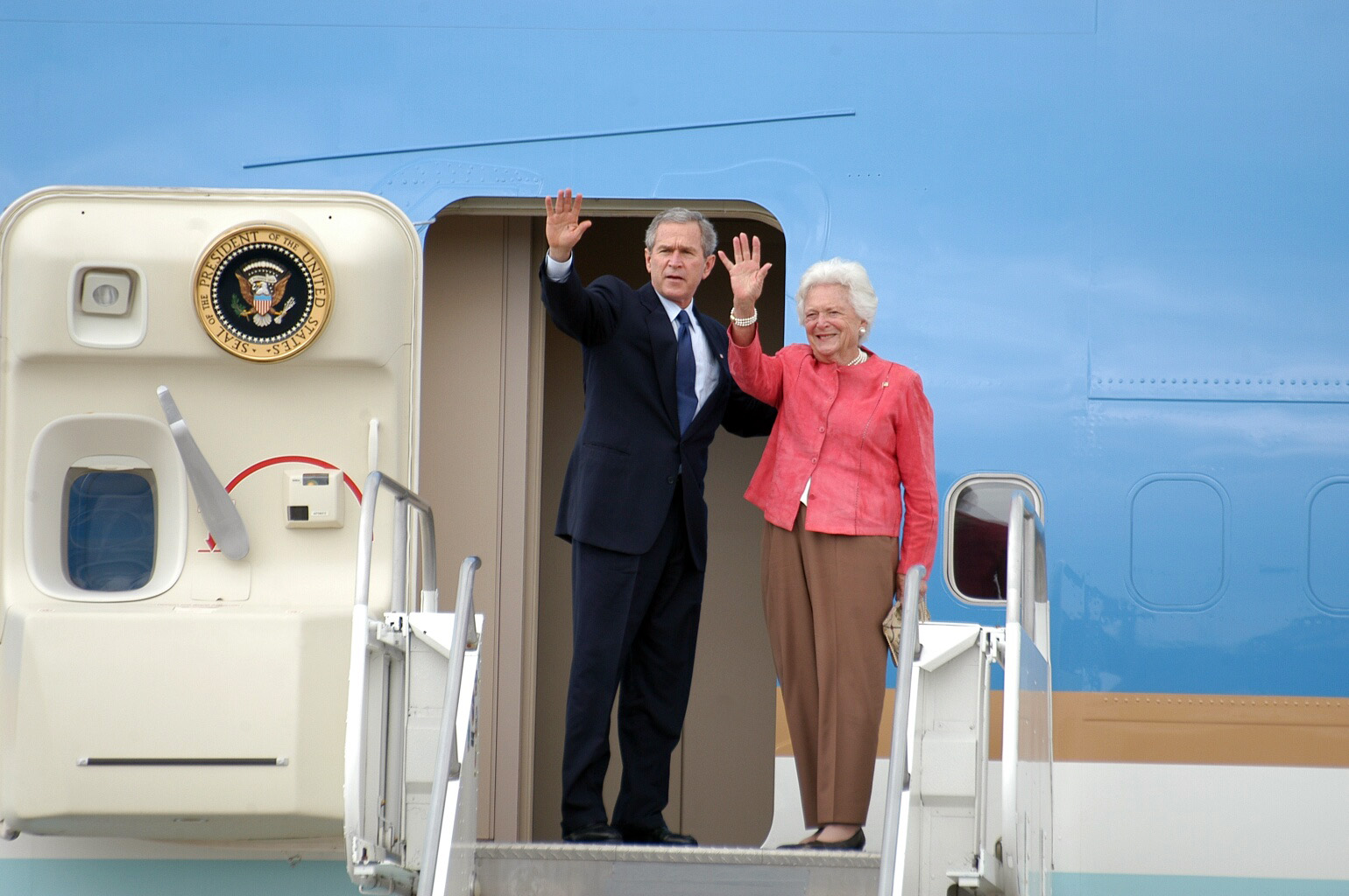 Pensacola, Fla. (Mar. 18, 2005) - President George W. Bush and his mother, Barbara Bush, wave goodbye to a crowd of over 200 Sailors and Marines aboard Naval Air Station (NAS) Pensacola, Fla. President Bush made a brief stopover at NAS Pensacola to discuss his Social Security proposal at the nearby Pensacola Junior College. U.S. Navy photo by Patrick J. Nichols (RELEASED)